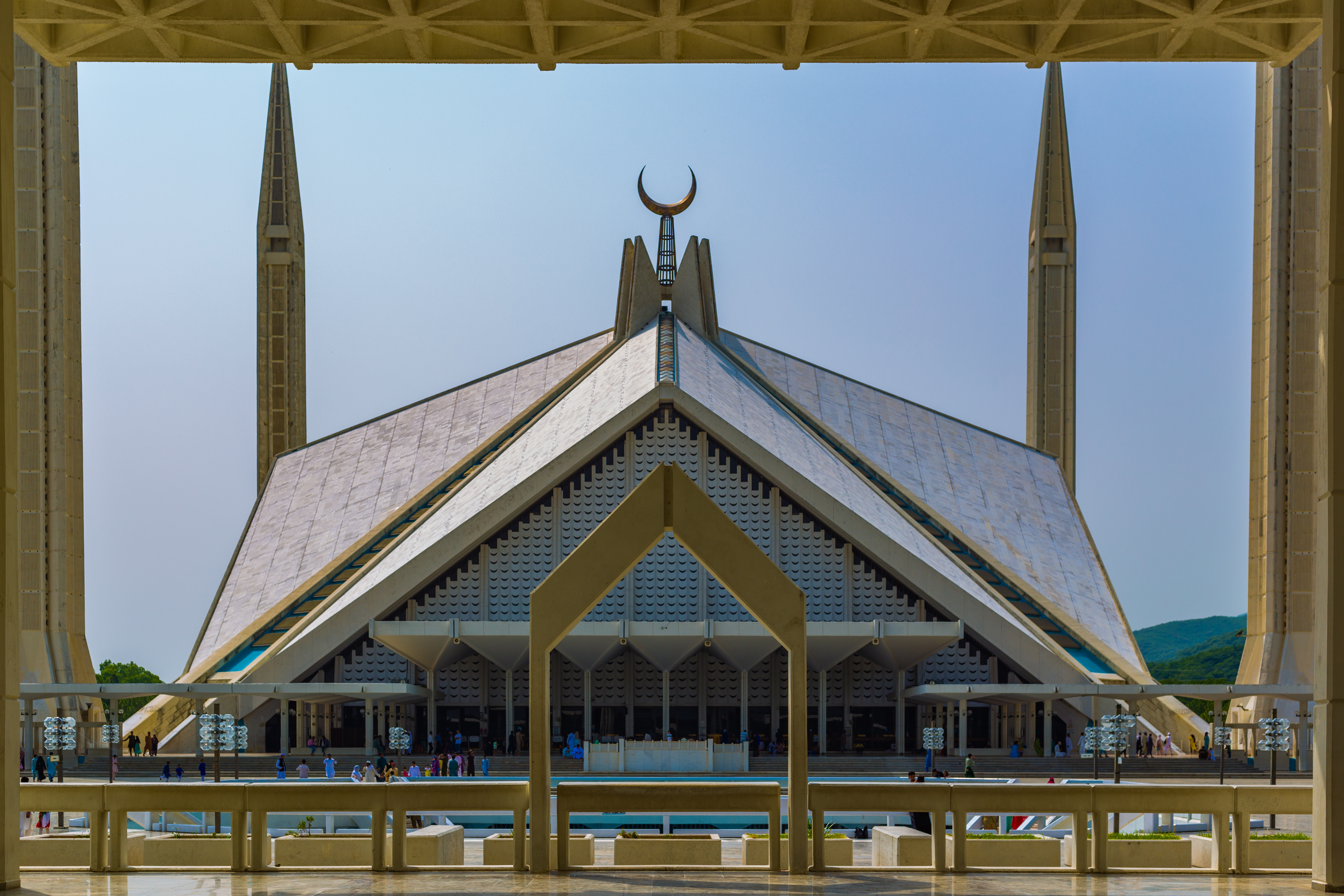 A view of the Shah Faisal Mosque in Islamabad, Pakistan This is a photo of a monument in Pakistan identified as the ICT-5